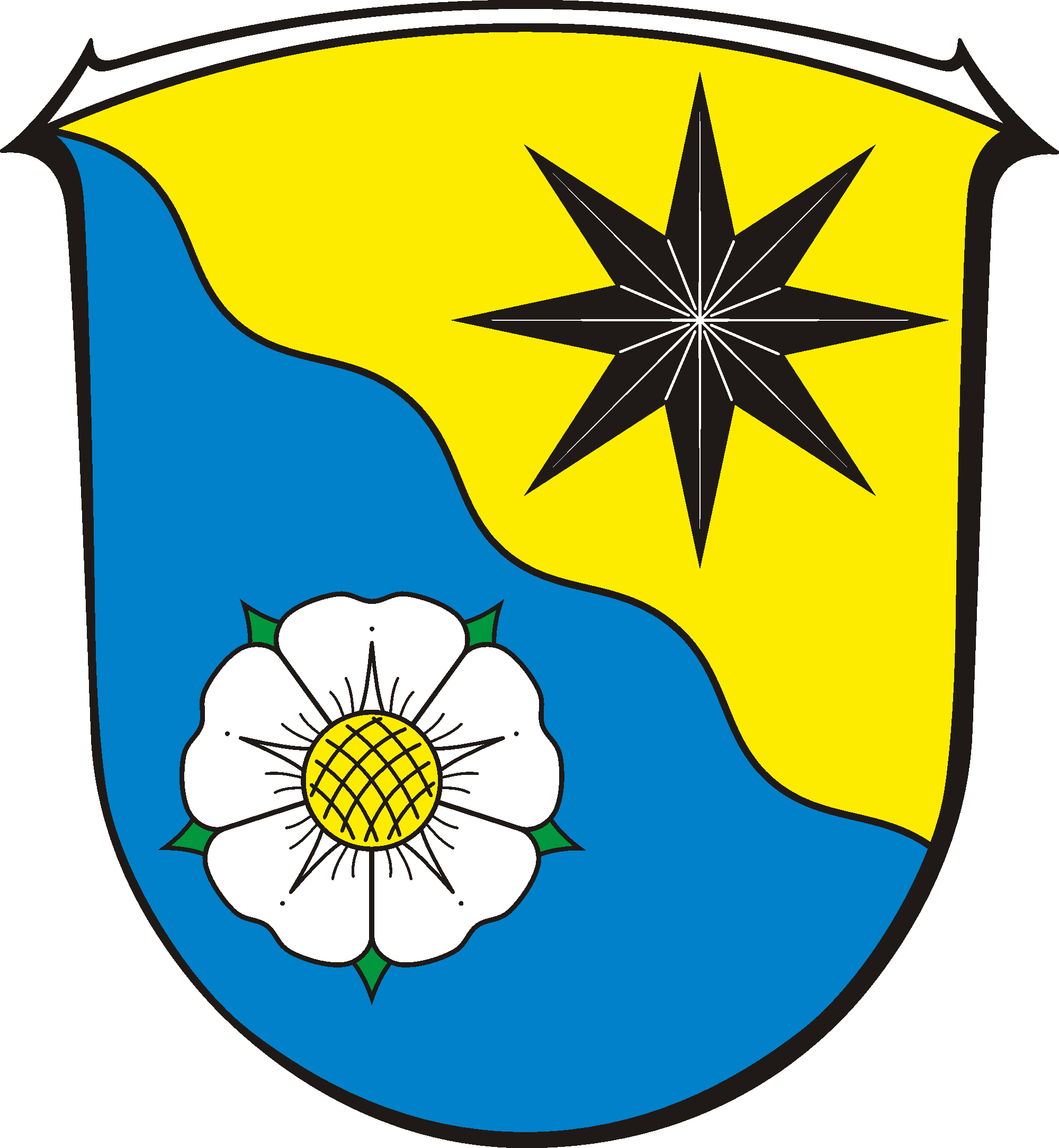 Coat of Arms of Diemelsee